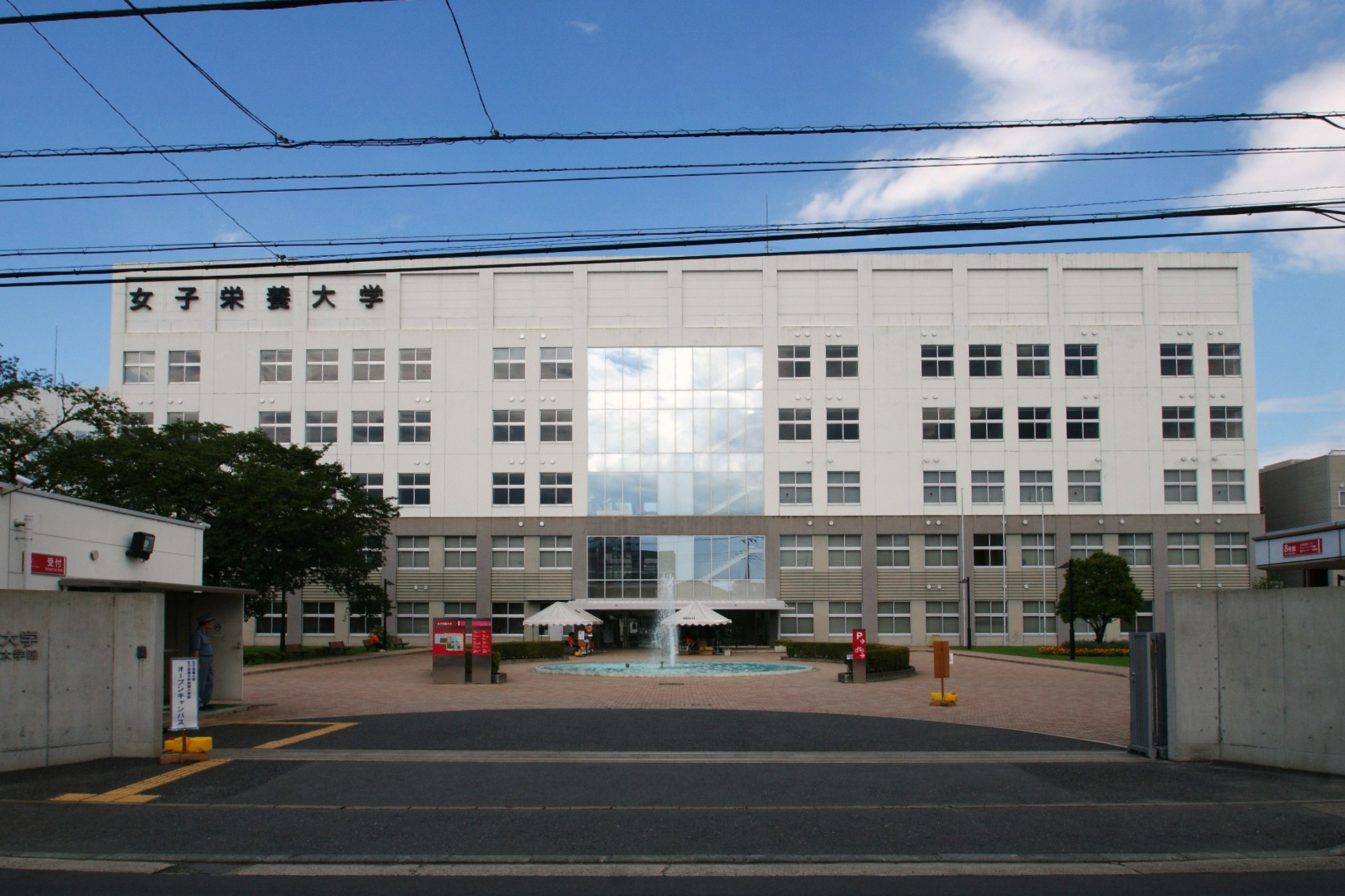 Kagawa Nutrition University Sakado Campus in Sakado, Saitama Prefecture, Japan